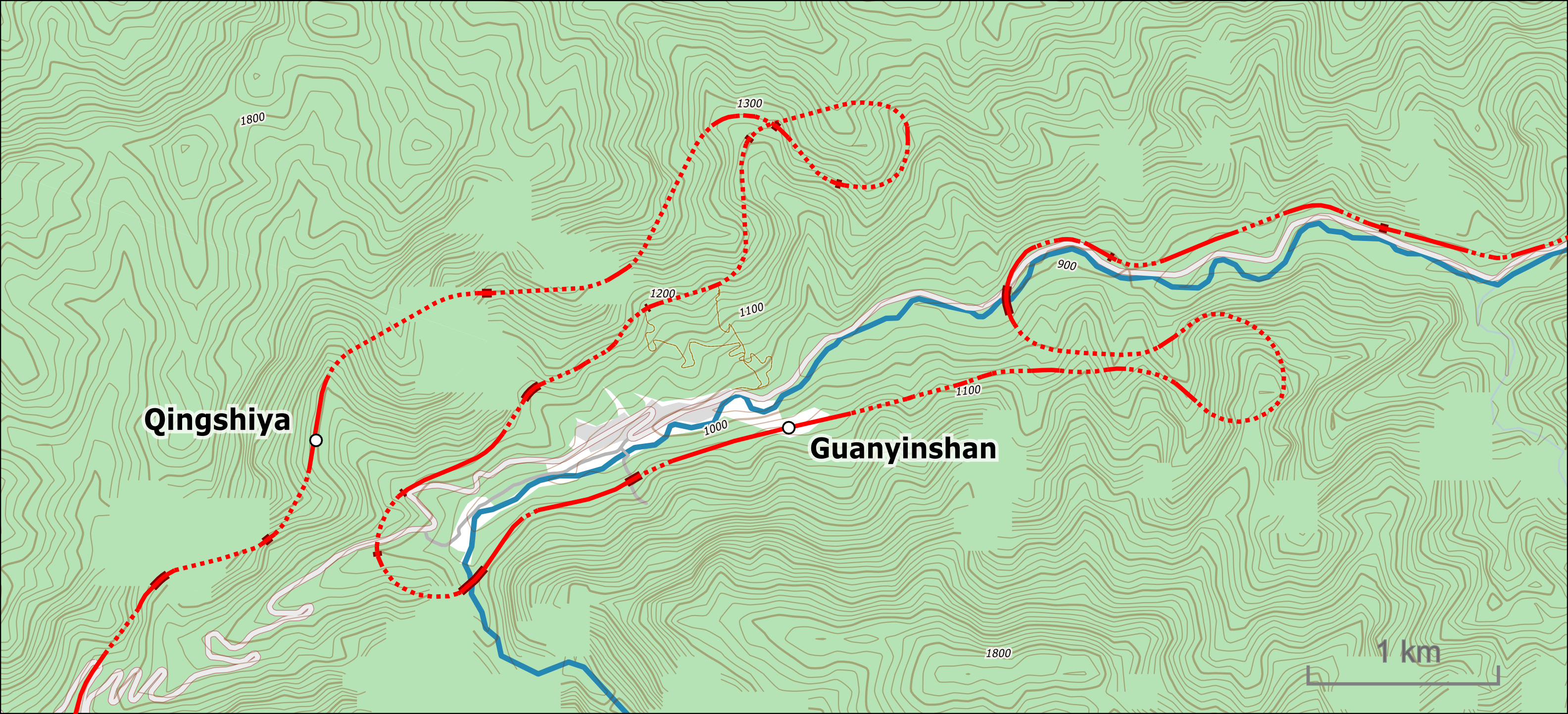 Map showing the Guanyinshan-Loops on the Baoji–Chengdu Railway